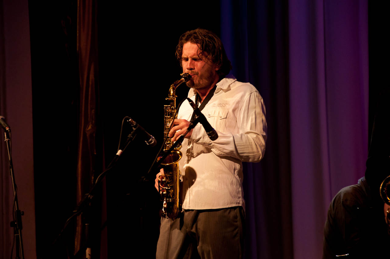 Nikolay Vintskevich